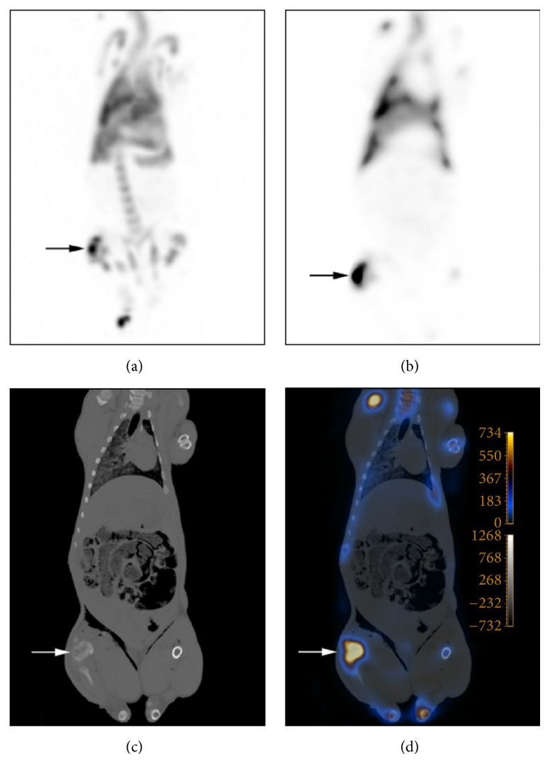 Post mortem 111In-leukocyte SPECT (a), 111In-leukocyte scintigraphy in dorsoventral projection (b), CT-scan (c) (bone window), and fused images (d) of a juvenile pig (pig c) demonstrating increased leukocyte accumulation in an osteomyelitic lesion in the proximal tibia, indicated by arrows, in the right hind limb. In figure (a), leukocyte accumulation is also seen in the distal femur, and the distal metatarsal bones III and IV.